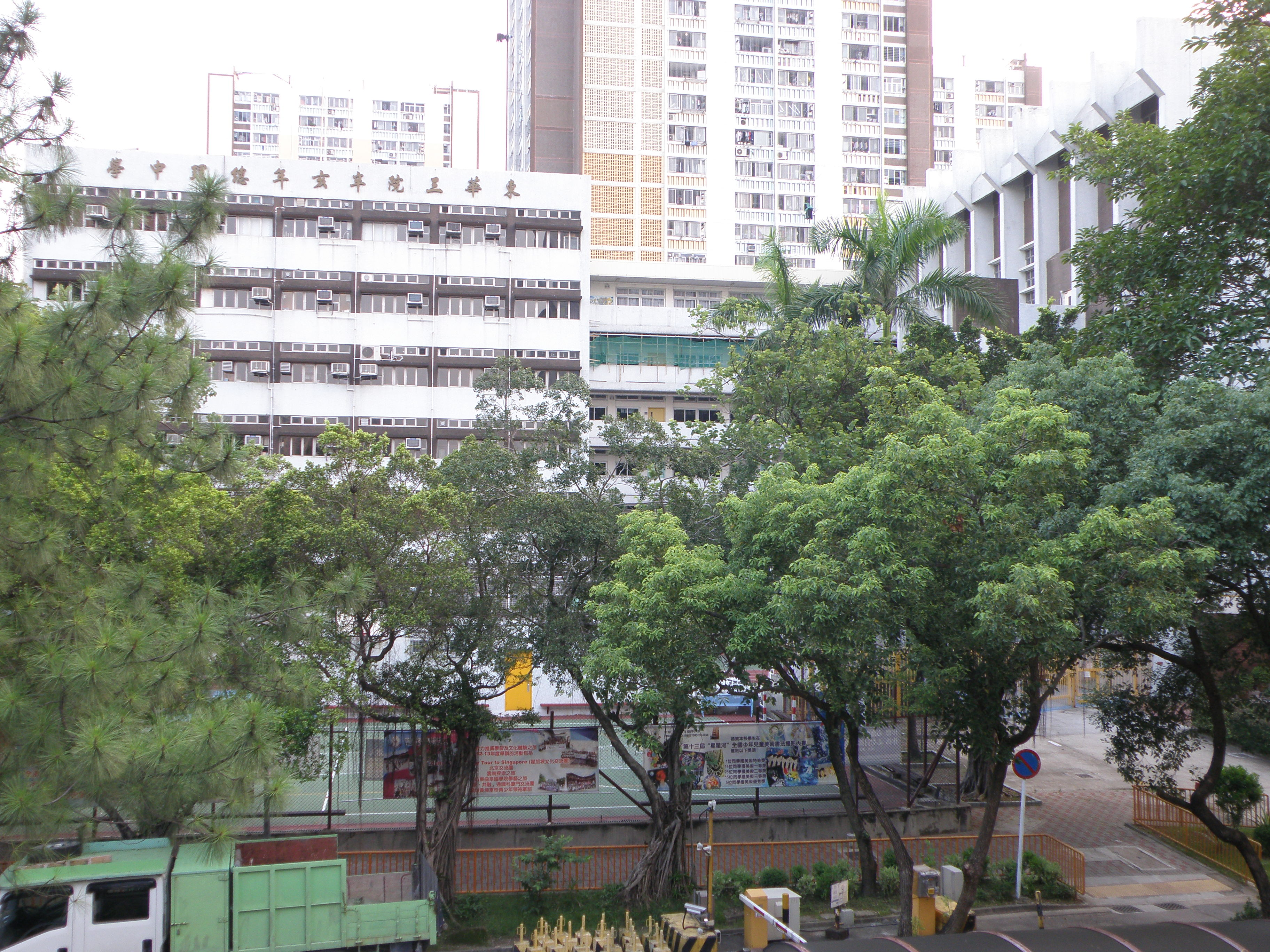 Tung Wah Group of Hospitals Sun Hoi Directors' College in Tuen Mun, Hong Kong.